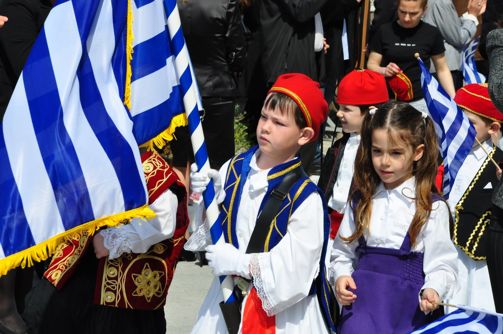 The Greek Children on the Independence Day. The photo taken in a small village Ouranoupoli of the Chalkidiki province, Hellas, on the 25 of March 2010.